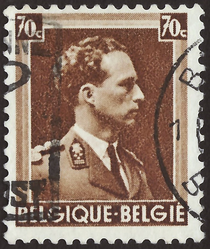 Stamp of Belgium; 1936; definitive stamp of the issue "King Leopold III of Belgium - Series Poortman"; stamp motive with King Leopold II of Belgium (1901-1983, was "King of the Belgians" 1934-1951) on small format with view to right; stamp postmarked Stamp: Michel: No. 423x; Yvert & Tellier: No. 427; Scott: No. 283; AFA: No. 422 Color: sepia to dark yellow brown Watermark: none Nominal value: 70 C (Centimes) Postage validity: from 10 September 1936 until ? Stamp picture size (printed area of a single stamp): 17.5 x 21.5 mm